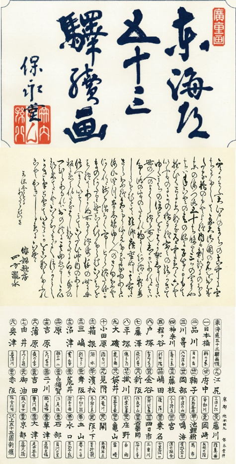 Title, preface and content table of the first complete album entitled ’True Depictions of the 53 Stations of the Tōkaidō’ (Shinkei Tōkaidō gojūsan eki tsuzukie, 真景東海道五十三駅続畫)